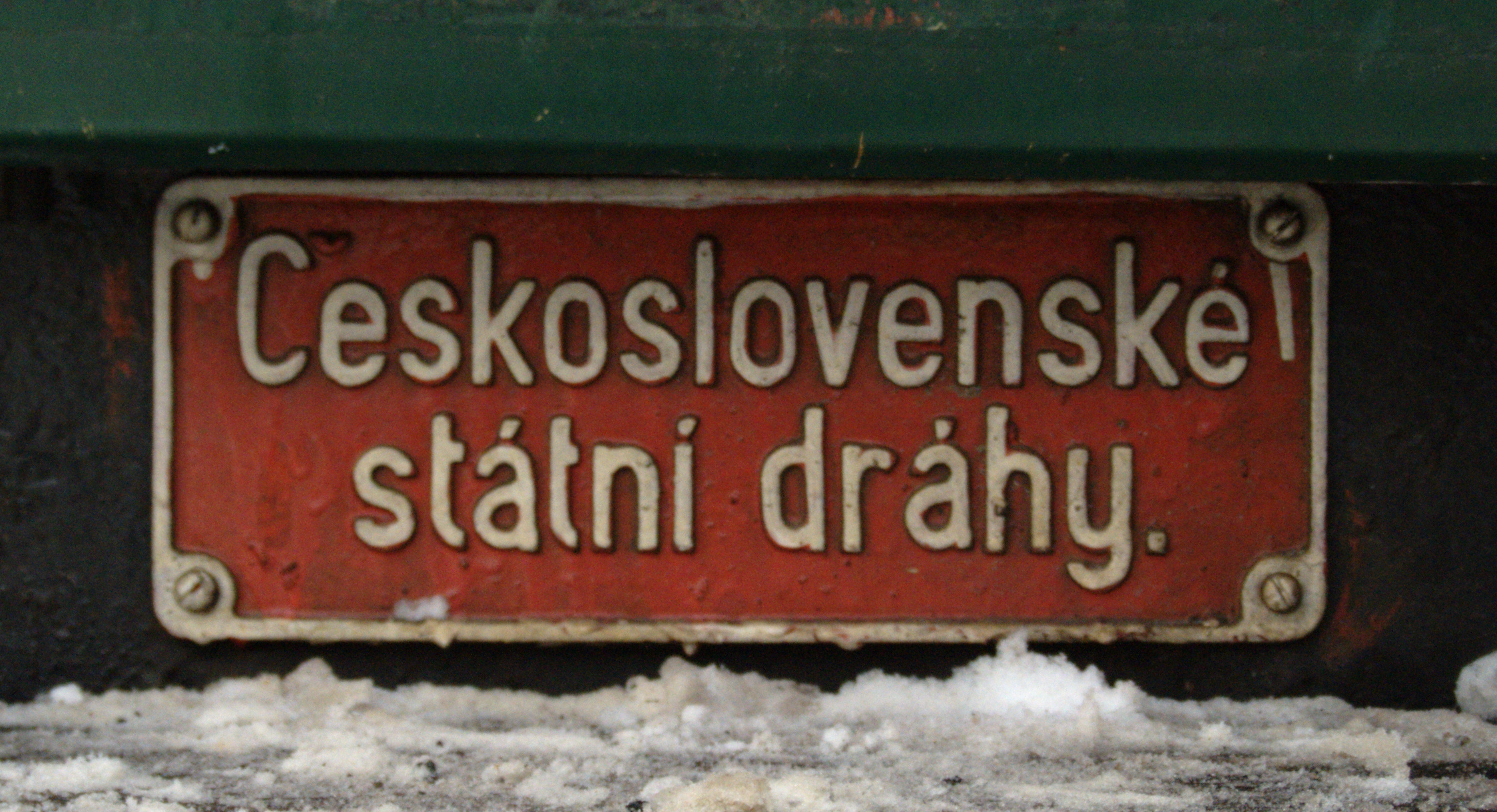 ČSD Czechoslovak Railways Logo on a passenger car in Prague-Bráník train station, Prague, CZ